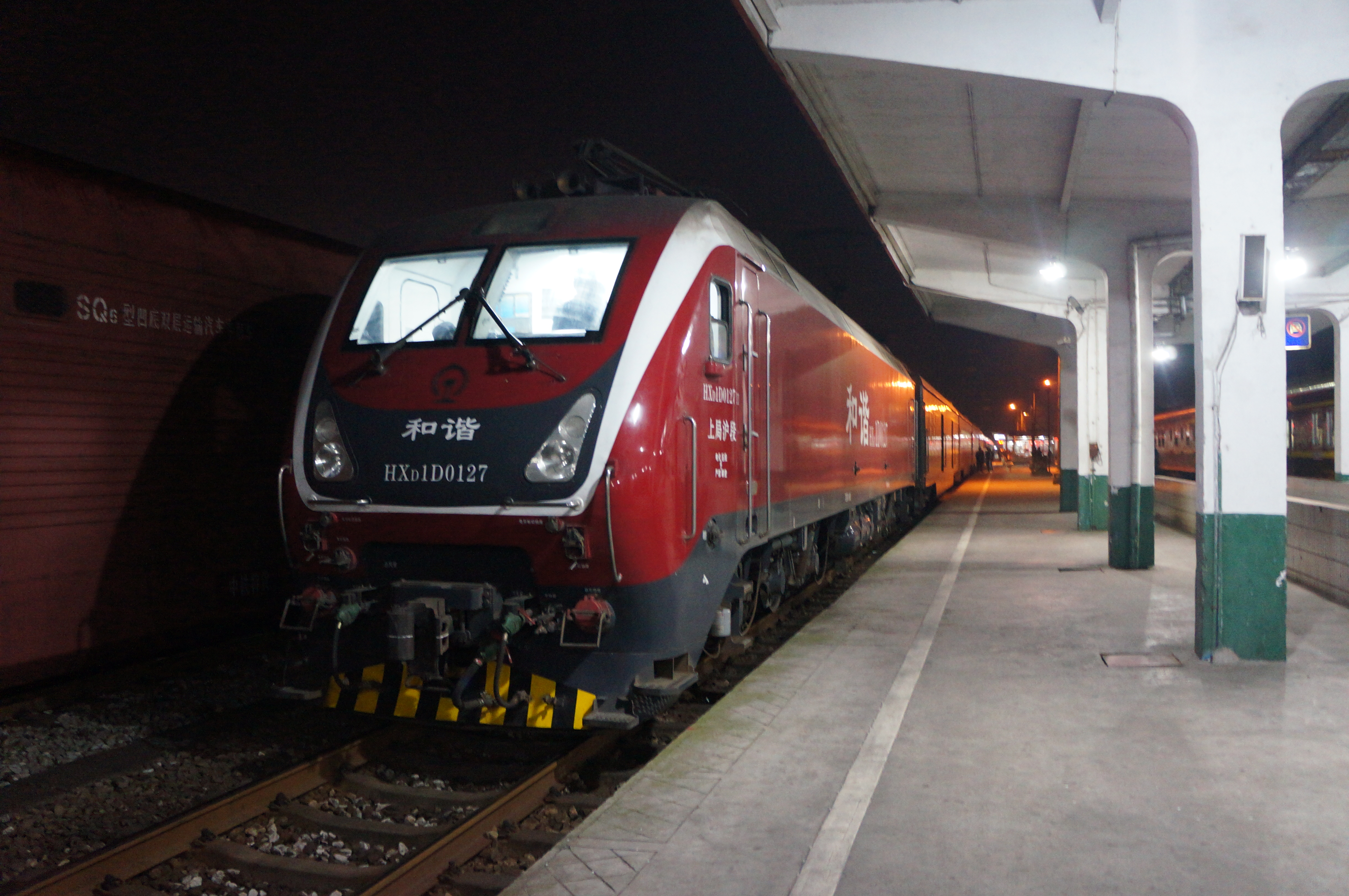 201712 HXD1D-0127 hauls Z247 at Yingtan Station